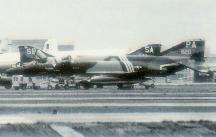 Three U.S. Air Force McDonnell F-4C Phantom II fighters at Clark Air Base, Philippines, in February 1975. The first aircraft is F-4C-24-MC, s/n 64-0820, from the 1st Test Squadron, 3rd Tactical Fighter Wing. The other two Phantoms are from the 334th Tactical Fighter Squadron (SA), and 335th TFS (SB), 4th Tactical Fighter Wing, Seymour Johnson AFB, North Carolina (USA).